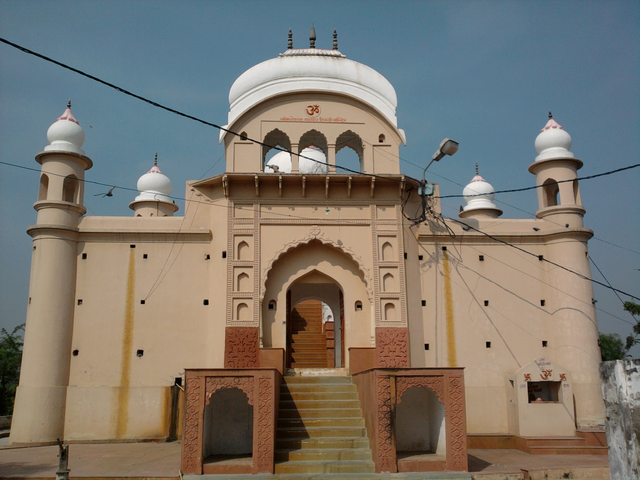 Temple of lord shiva